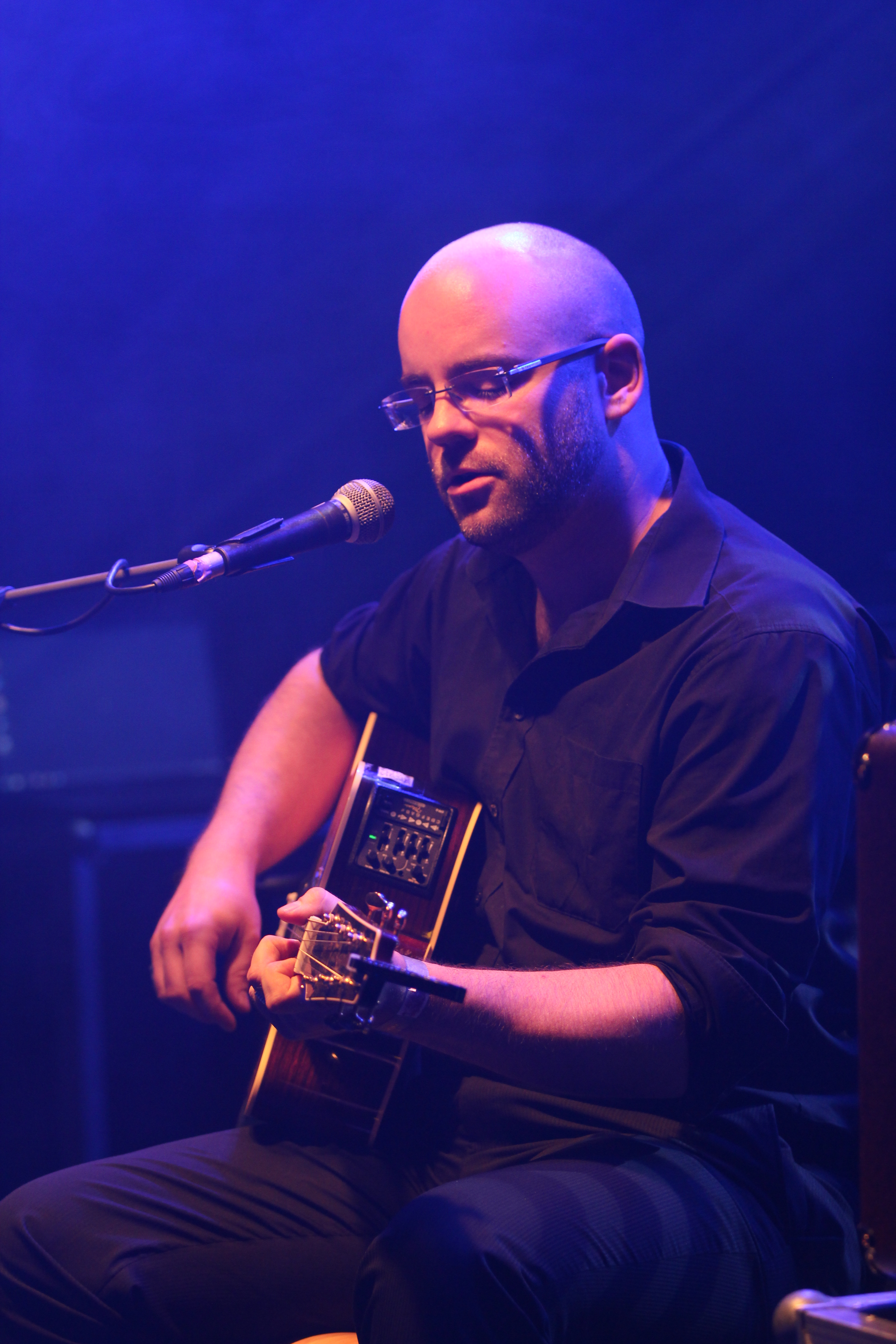 Jérôme Reuter from the Luxembourgian chanson noir band Rome at the Nocturnal Culture Night 9 2014 in Deutzen/Germany